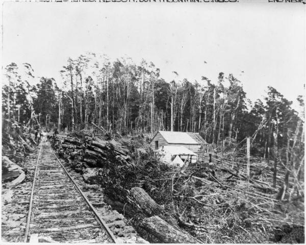 Dun Mountain, 1862, Alexander Turnbull Library, 1/2-160121-F